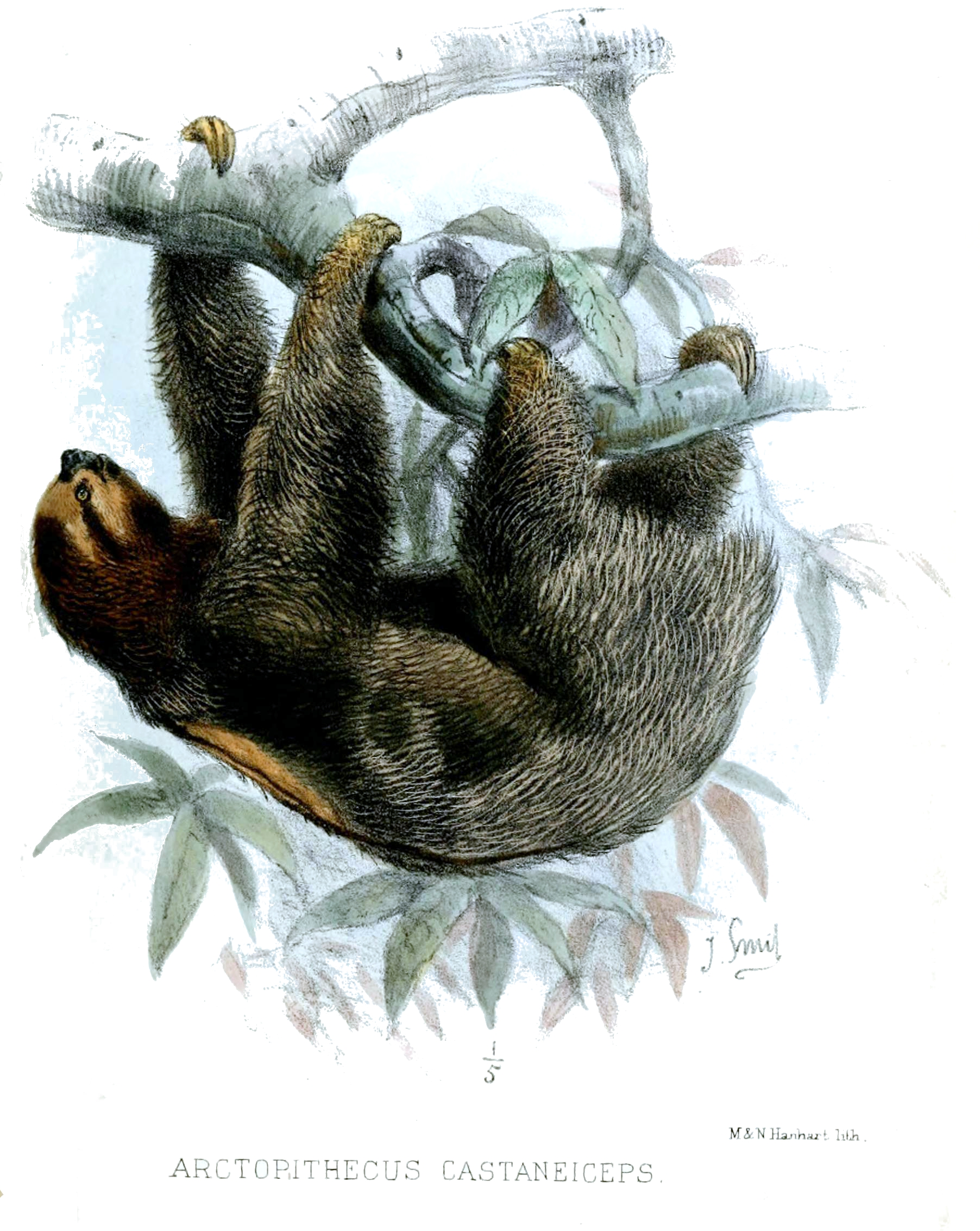 Arctopithecus castaneiceps = Bradypus variegatus